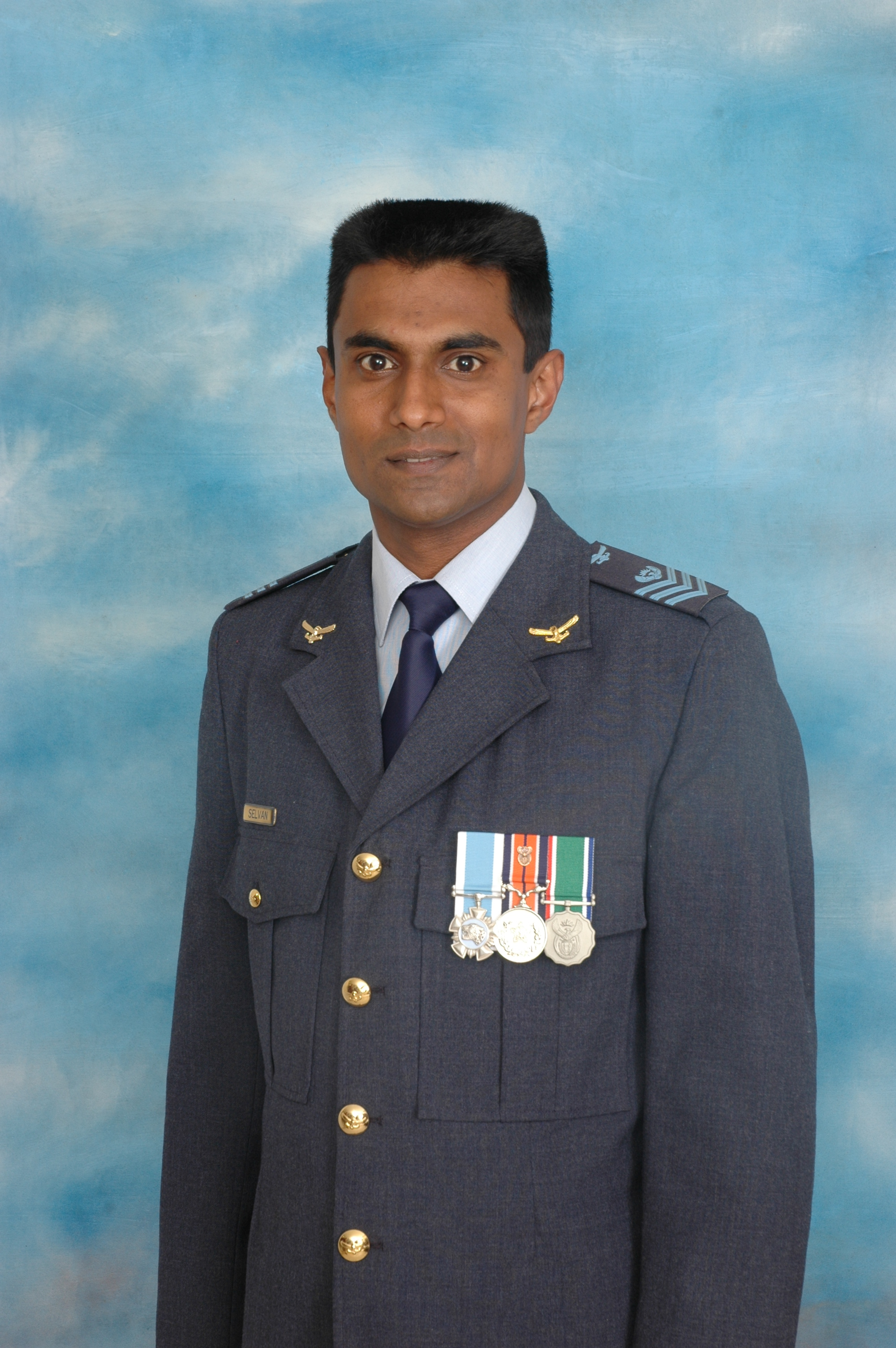 F/Sgt V. Selvan, NS with three South African military medals. L-to-R: Nkwe ya Selefera (Silver Leopard), the General Service Medal with the Honourable mention in despatches clasp and the Medal for Loyal Service.